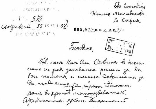 Letter from Dionisius Popyanchev to Kliment Miladinov 1908